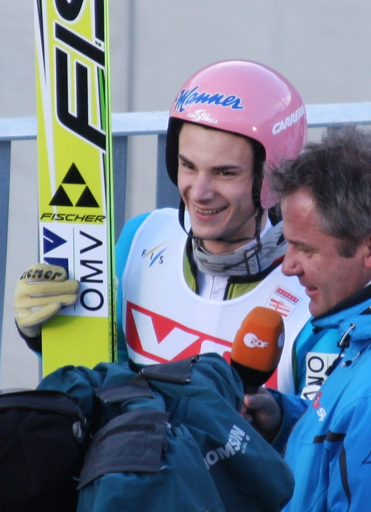 Manuel Fettner in WC Holmenkollen, Oslo 2010